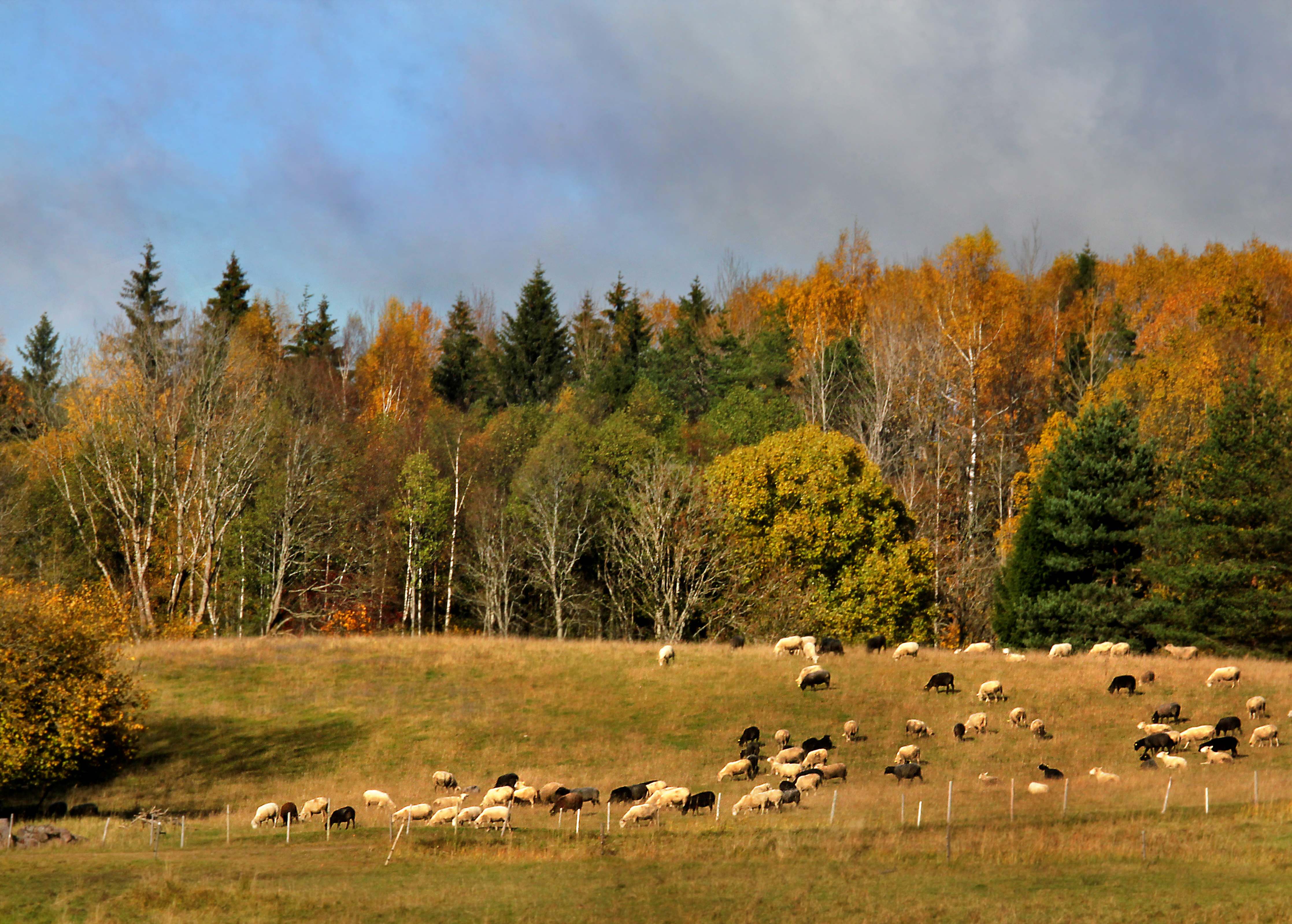 Sheep in the Haanja Nature Park